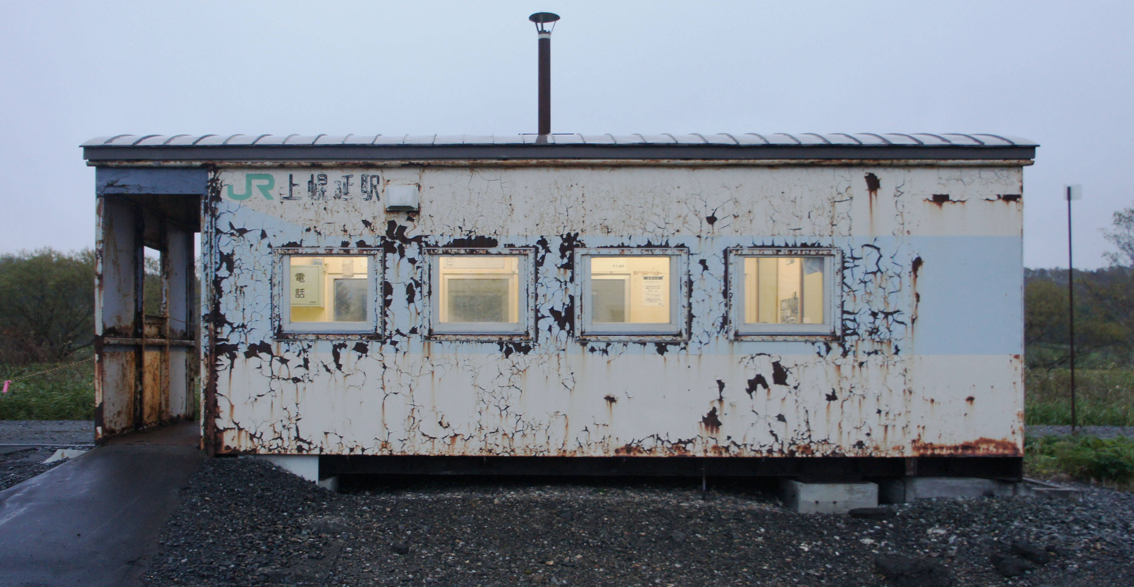 Station building of JR Soya-Main-Line Kami-Horonobe Station